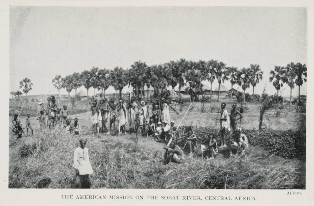 A large group of tribal Shilluk people standing in front of a line of palm trees at the American Africa Mission on the Sobat River. Location: Southern Sudan — 1906.